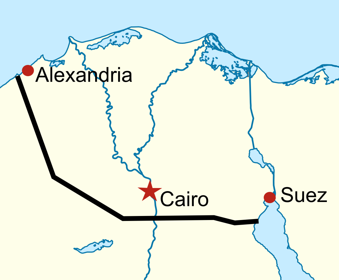 Location map of Egypt Equirectangular projection, N/S stretching 111.8685 %. Geographic limits of the map: * N: 32.1° N * S: 21.3° N * W: 24.2° E * E: 37.3° E